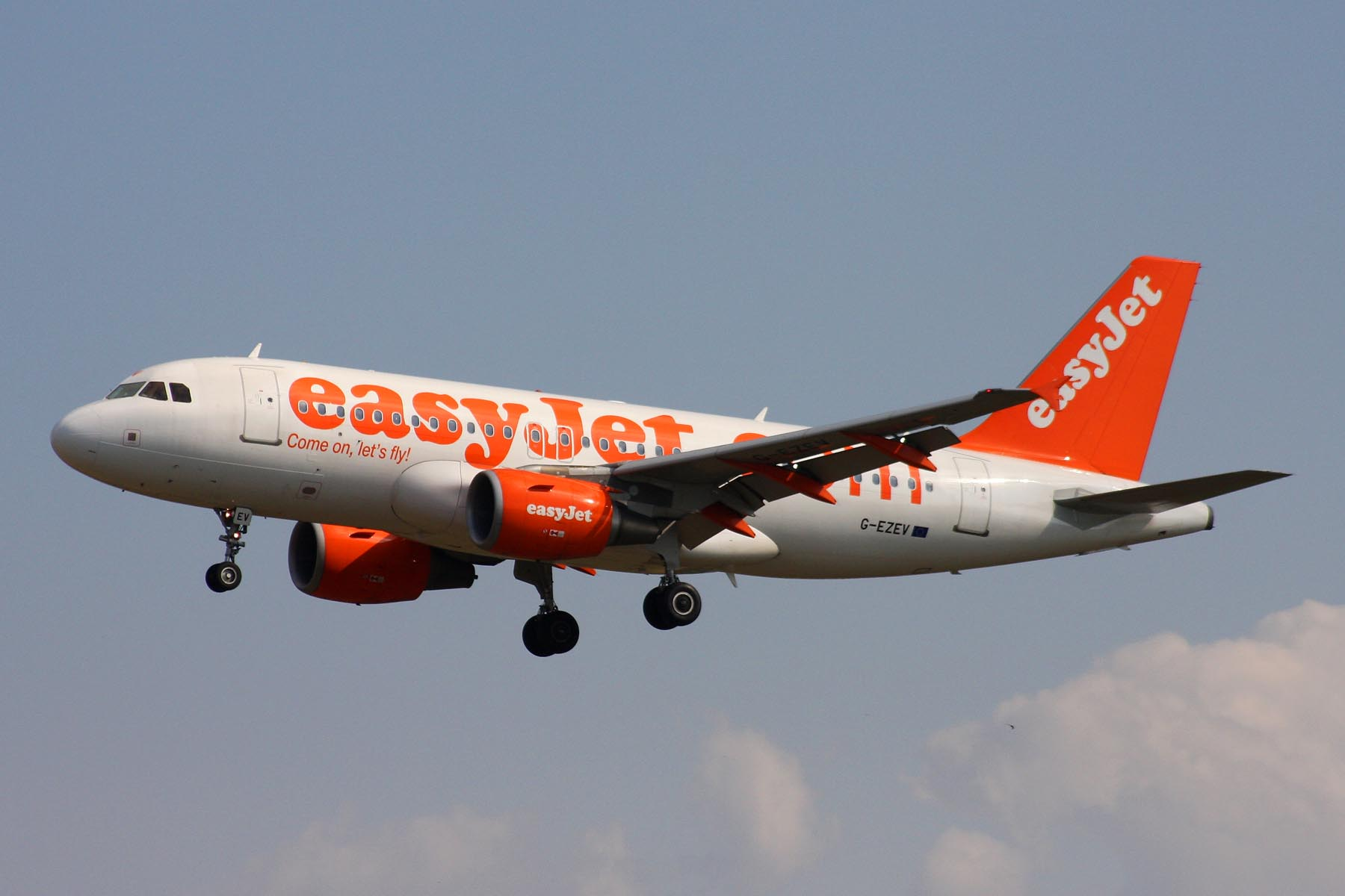 G-EZEV. easyJet Airbus A319 on approach at Palma de Mallorca Airport.